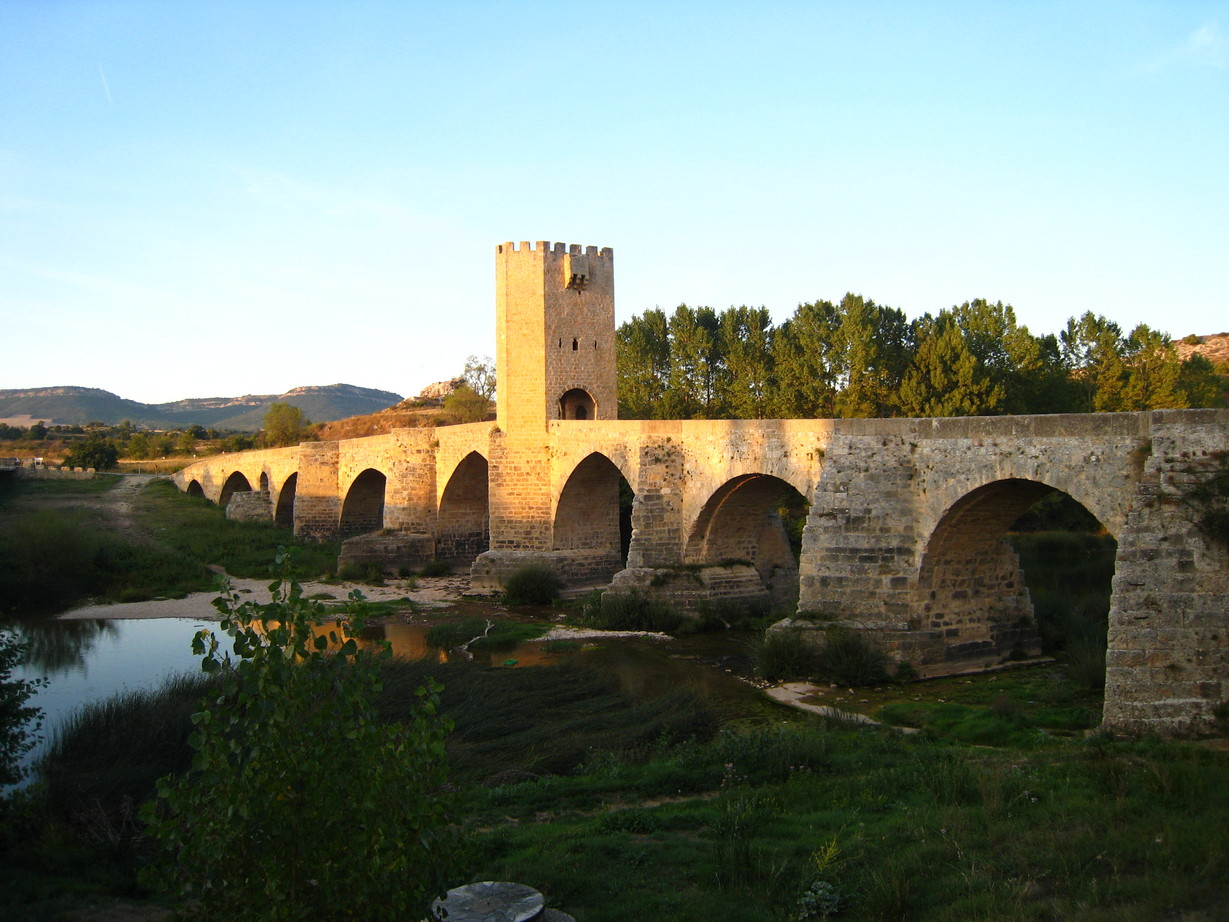 Bridge at Frías, Burgos.